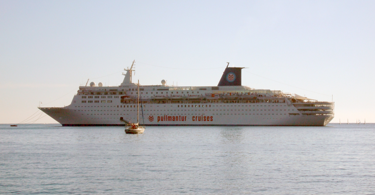 the Turbine Steam Ship (TSS) Sky Wonder moored at Villefranche